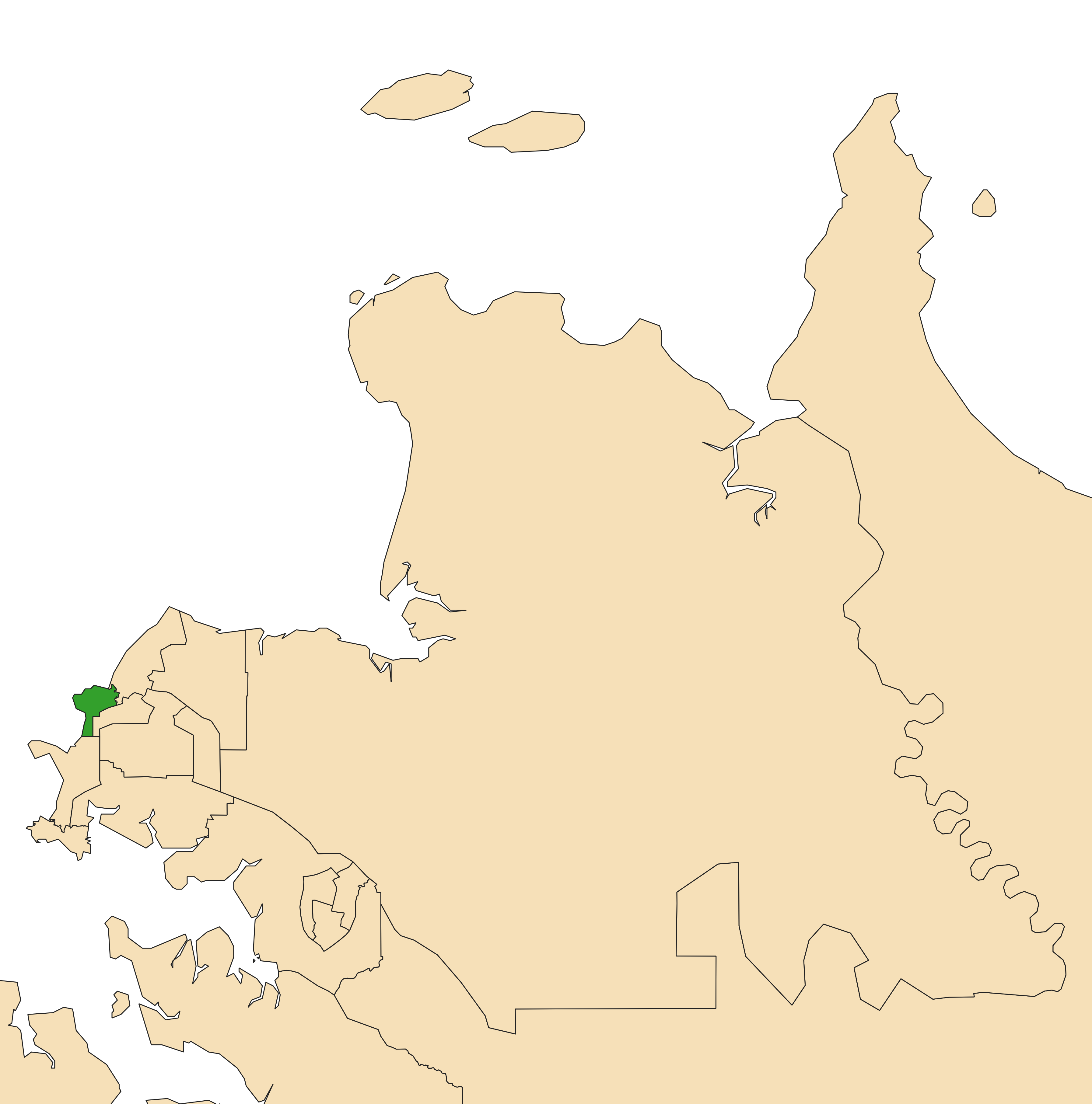 Location of the electoral division of Nightcliff (dark green) in the Darwin/Palmerston area of the Northern Territory at the 2020 Northern Territory election